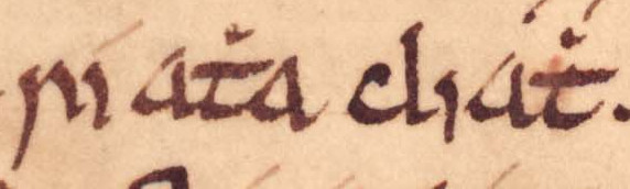 An excerpt from folio 43v of Oxford Bodleian Library MS Rawlinson B 489 (the Annals of Ulster). The excerpt concerns Gofraid mac Amlaíb meic Ragnaill (died 980).